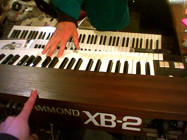 My Pop rocking on the new hammond